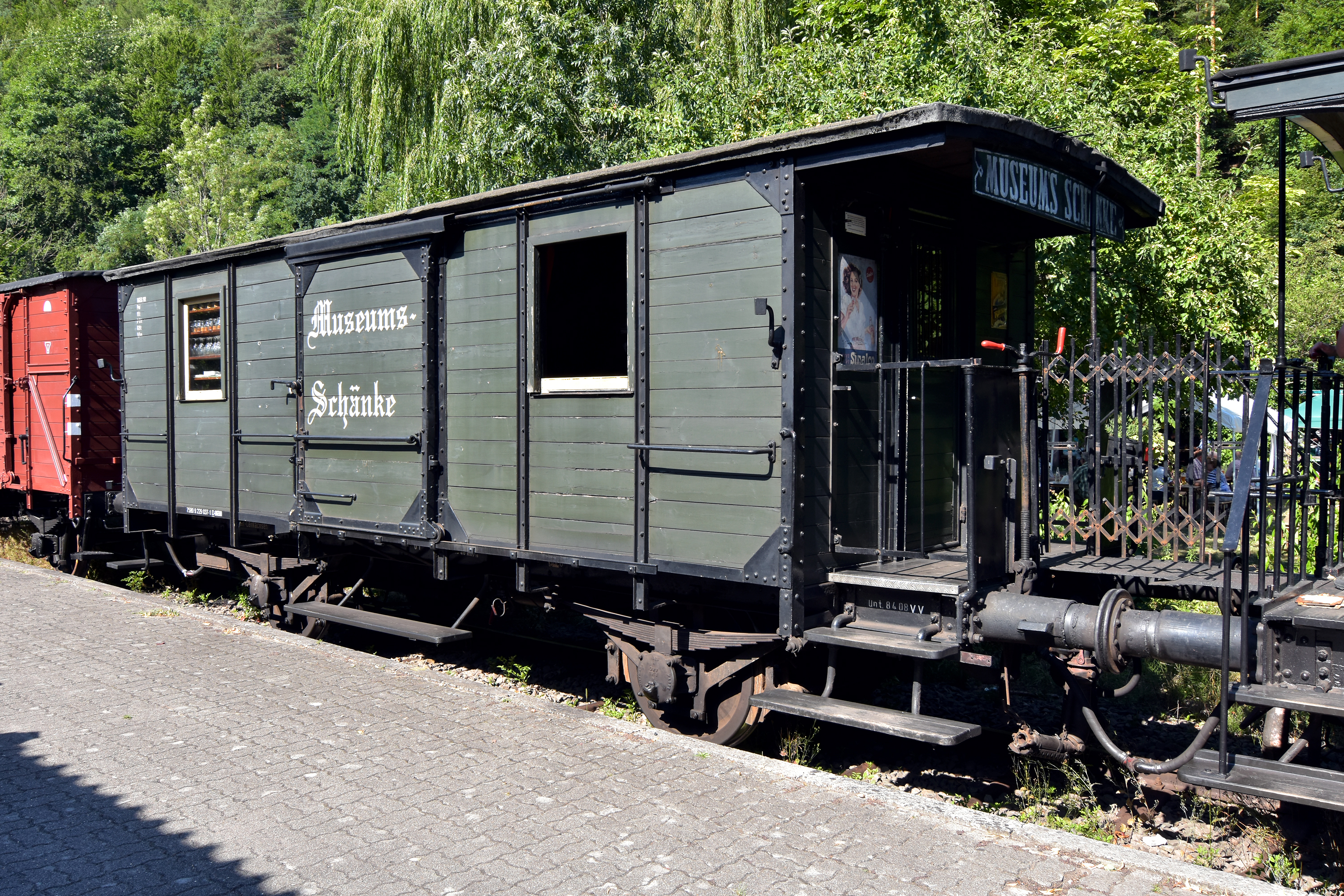 Kuckucksbähnel, DGEG 102